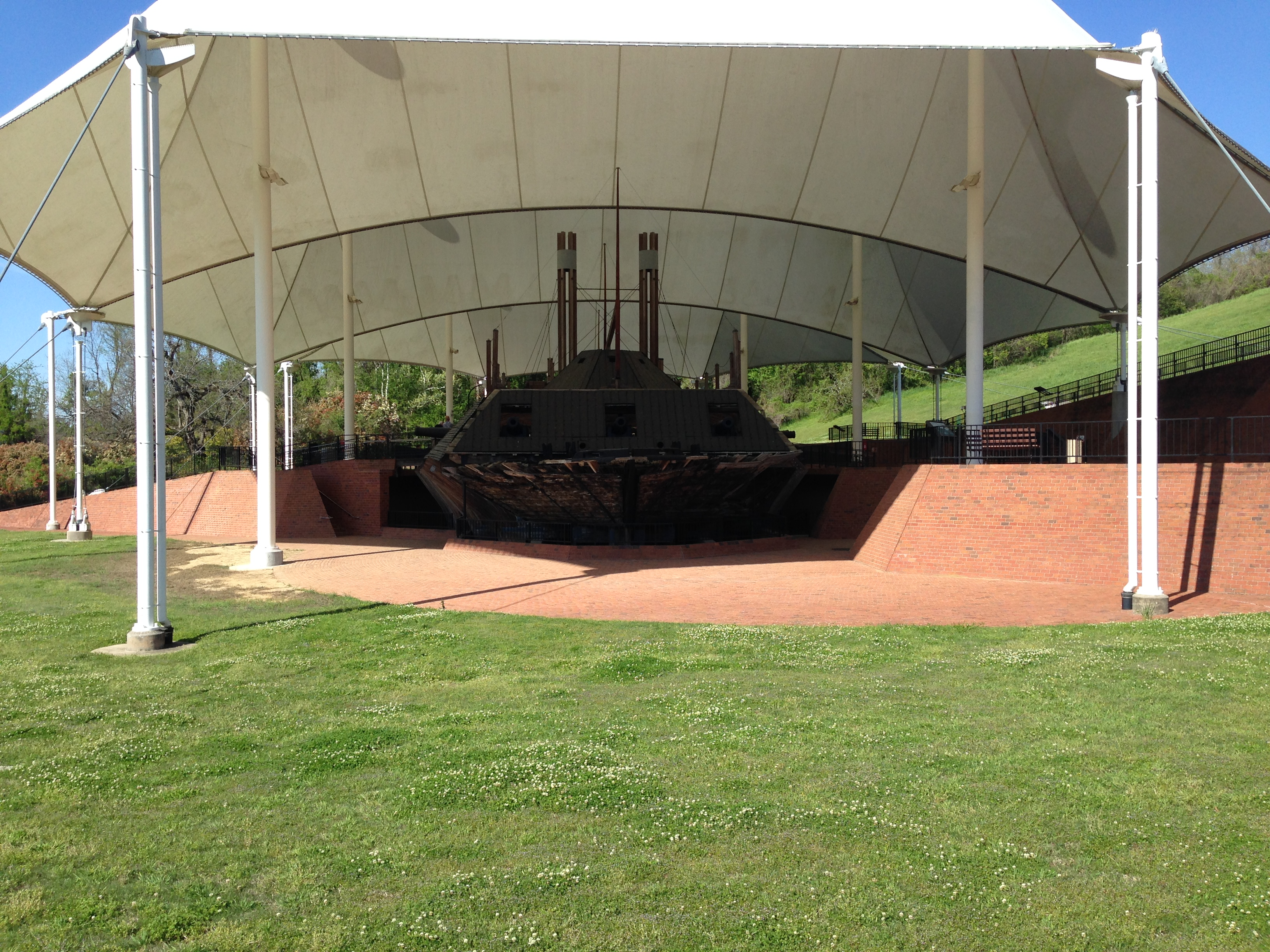 USS Cairo in Vicksburg National Military Park, Mississippi.